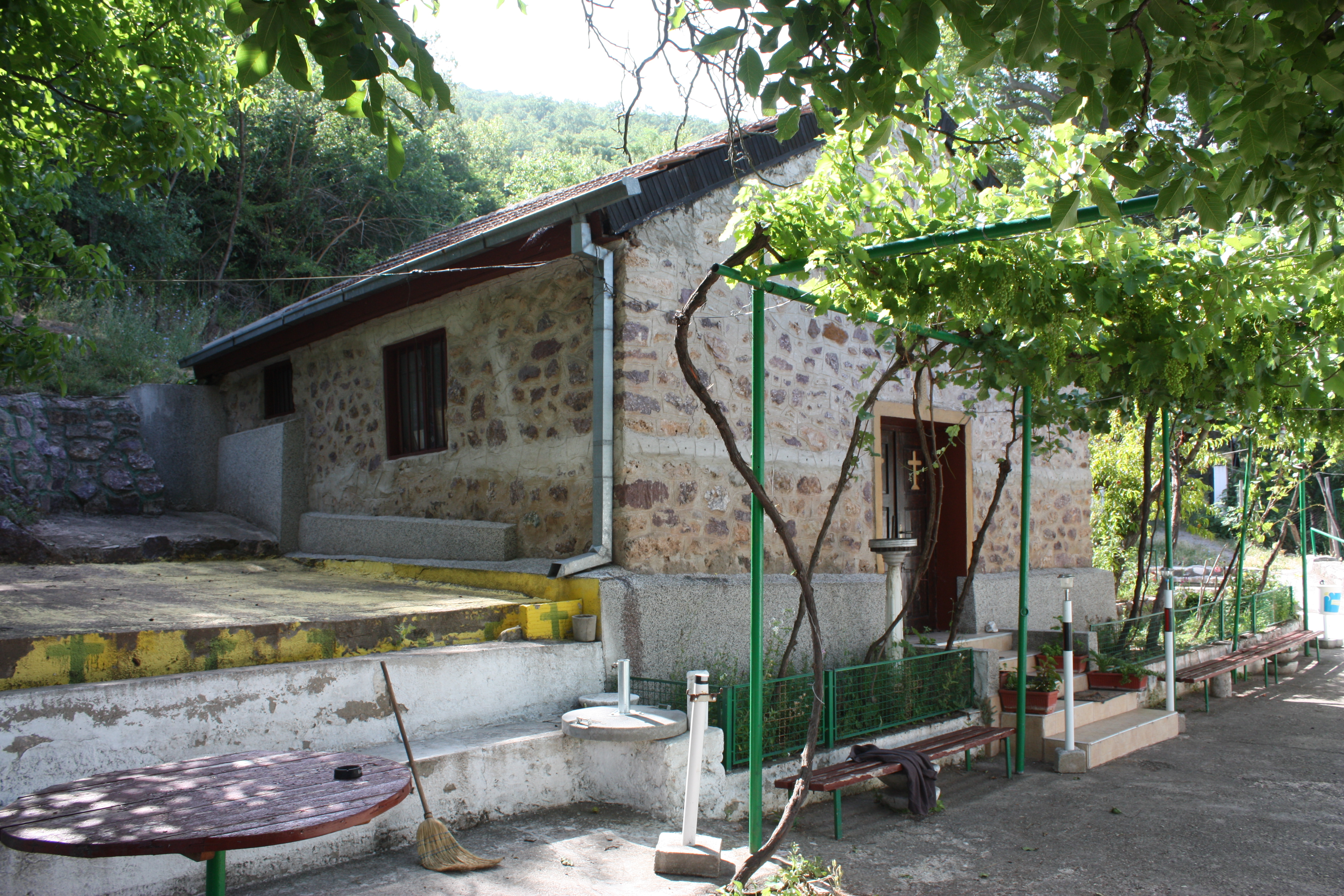 St. John the Baptist Church in Vetersko, Macedonia